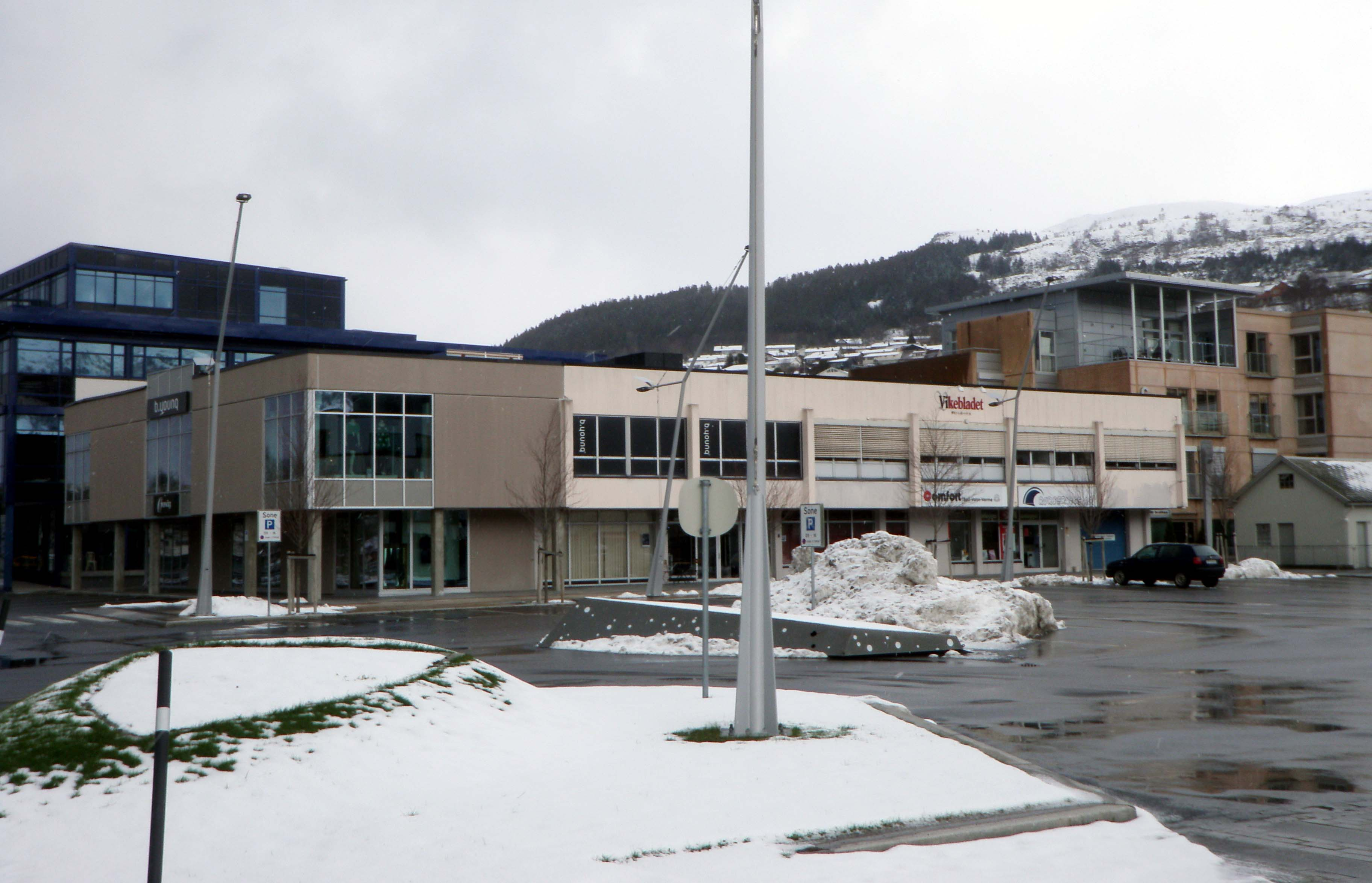 Commercial building housing Vikebladet Vestposten in Ulstein, Møre og Romsdal, Norway.